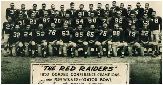 The 1954 Gator Bowl winning Texas Tech football team.